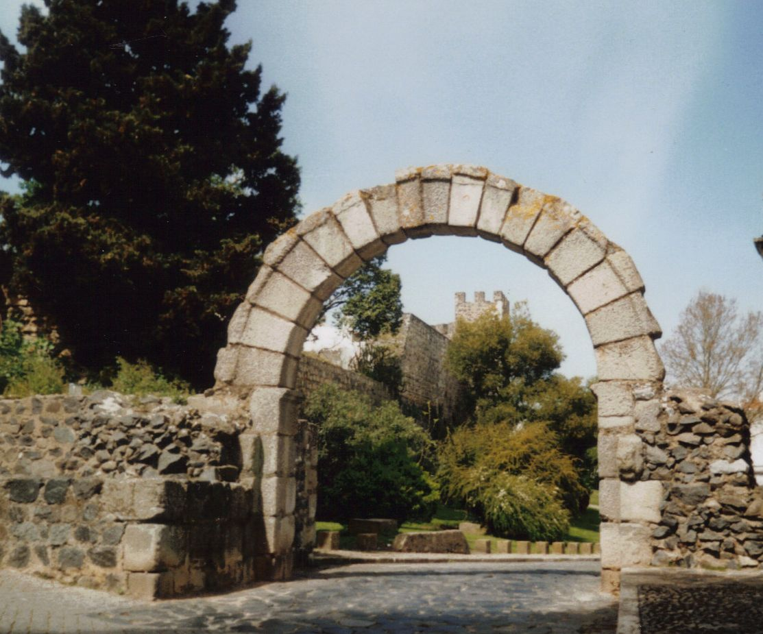 Roman arch, Travessa Funda lane, Beja, Portugal.